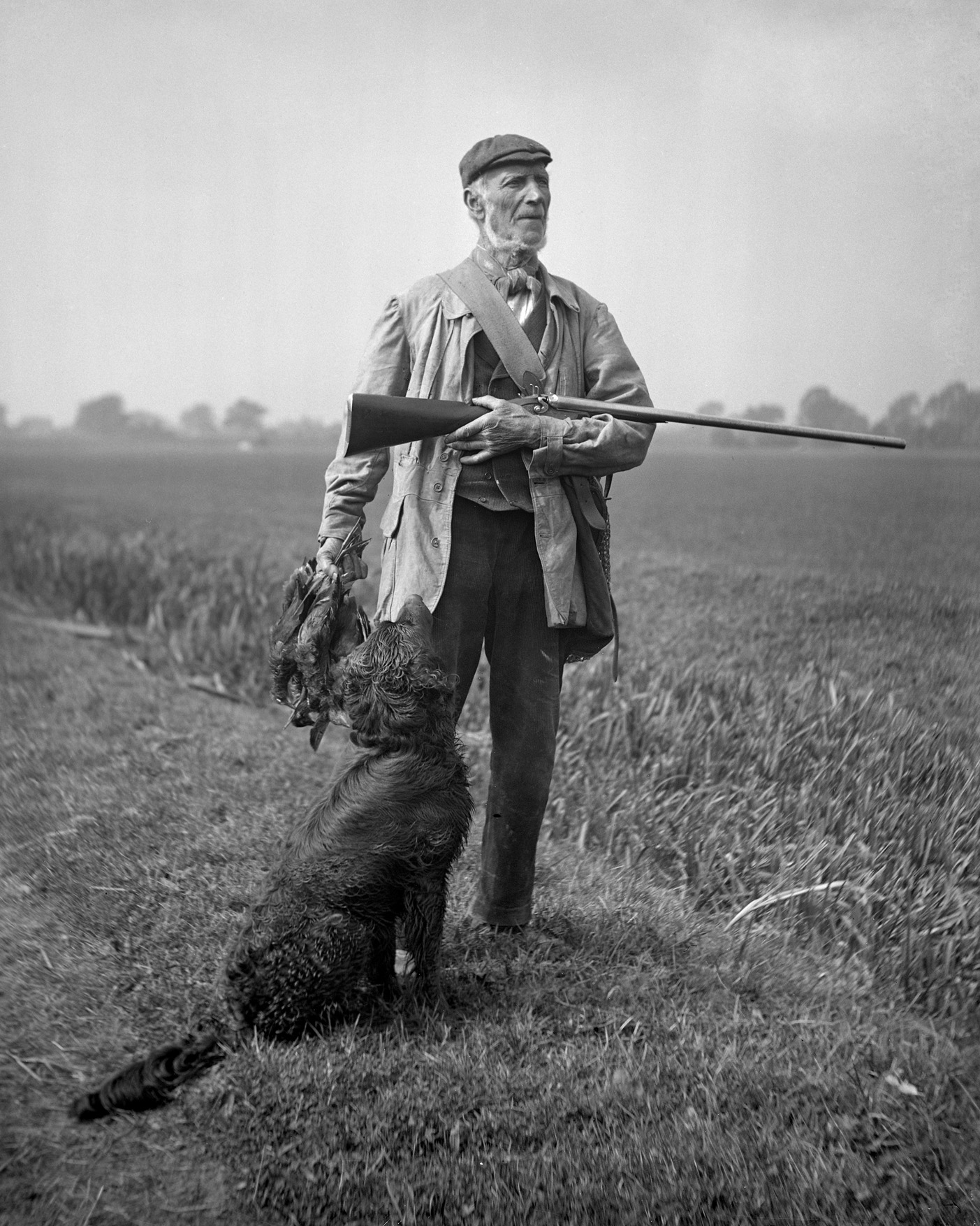 Slights, standing in marshy ground. He is wearing outdoor country clothes. Over his left arm he has a long-barrelled gun, and in his right hand several dead birds. A retriever is sitting at his feet.